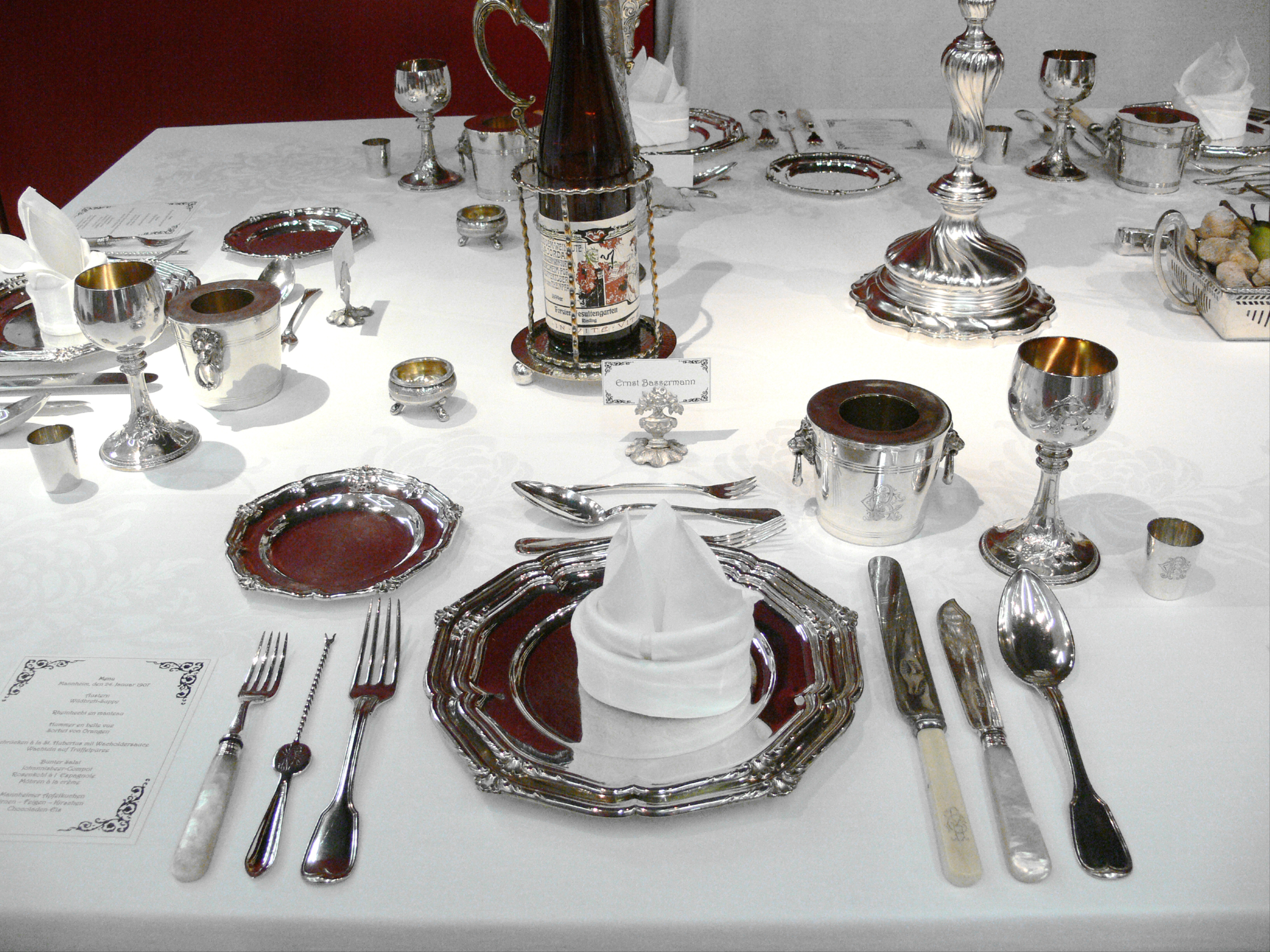 Silver table setting of the siblings Carl and Anna Reiss. C. 1,000 pieces by various German manufacturers, made after 1888. Gallery: Zeughaus, Reiss-Engelhorn-Museen, Mannheim.